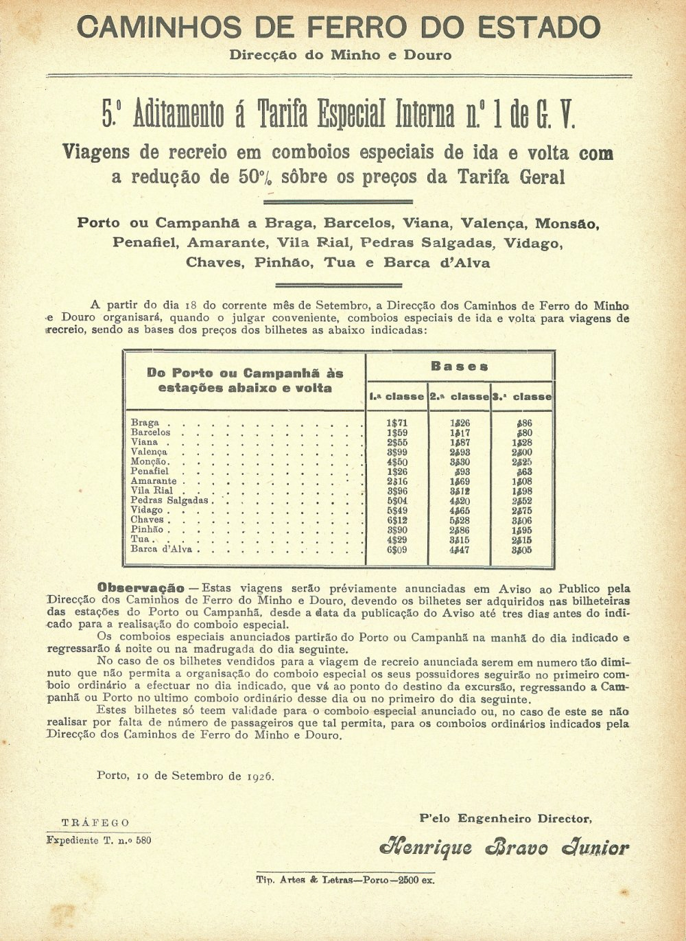 Public warning of the Minho and Douro division of the Caminhos de Ferro do Estado (State Railways), in Portugal, about the 5th addition to the special internal tariff n.º 1, of high speed. This image was originally published in the Gazeta dos Caminhos de Ferro No. 930, of the 16th September 1926, and scanned by the Hemeroteca Municipal de Lisboa.